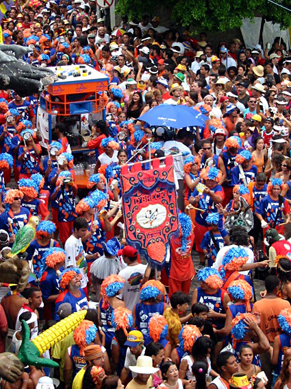 D´breck at Olinda. Carnival